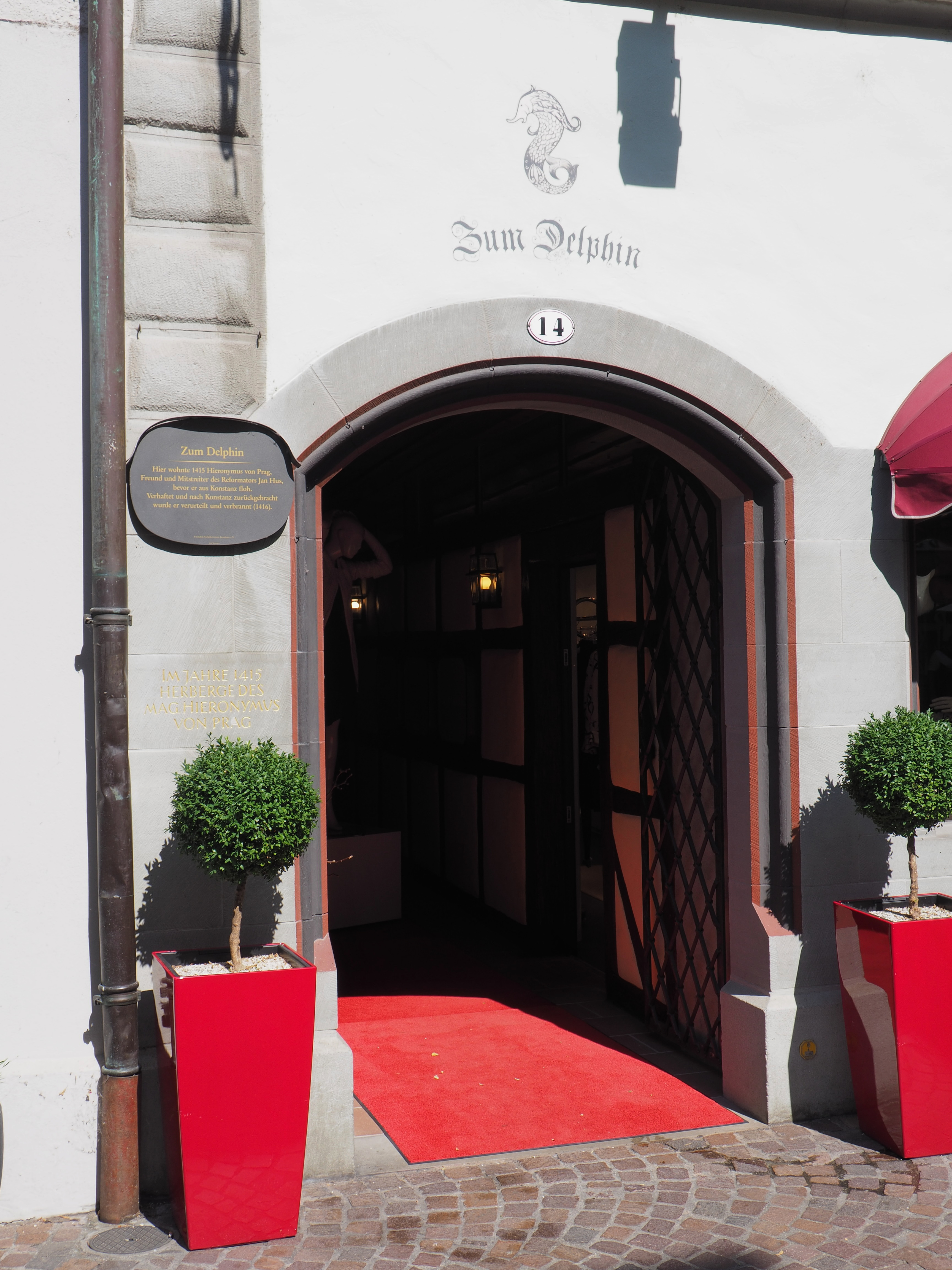 House Zum Delphin in Hussenstrasse 14 in Konstanz. Jerome of Prague, a friend and fellow of the Bohemian reformer Jan Hus lived in 1415 in this building.